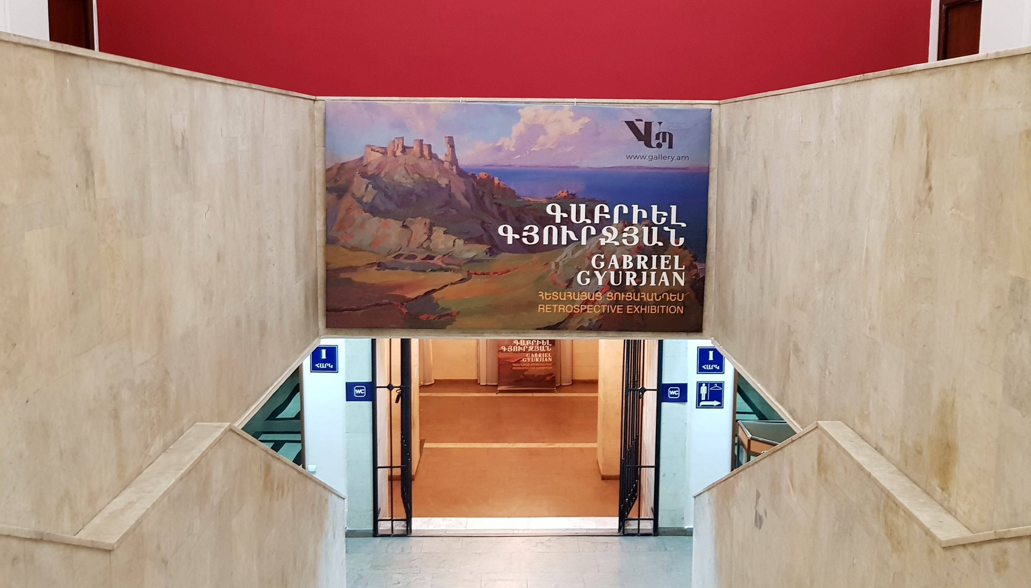 Gabriel Gyurjian's 125th anniversary exhibition at National Gallery of Armenia